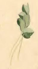 Stainton’s Natural History of the Tineina (1855–1873): Dichomeris limosellus clover leaves united by larva